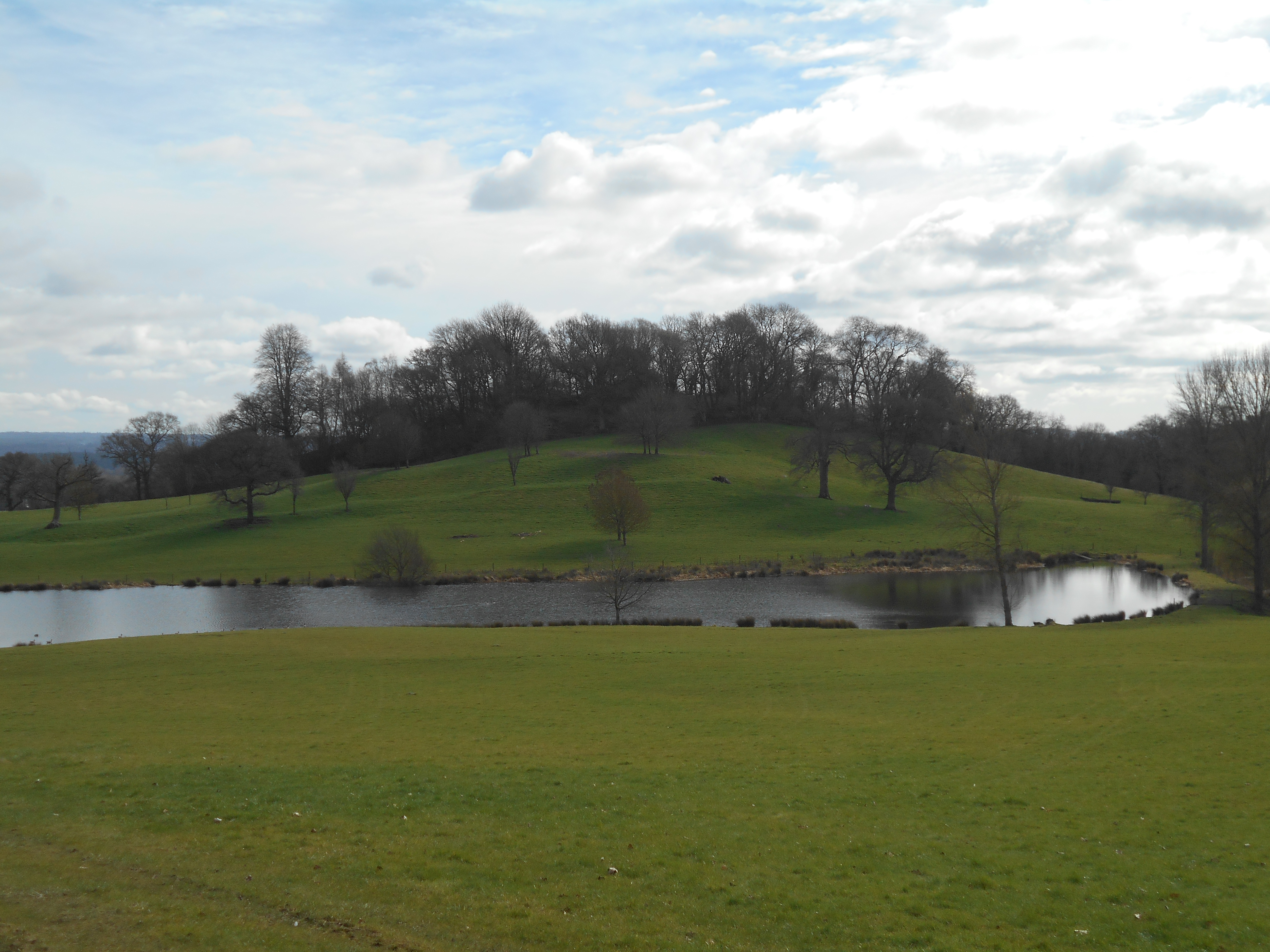 King John's Hill, in Worldham Parish, Hampshire. The hill was an Iron Age hillfort, with a later medieval hunting lodge attributed to King John.